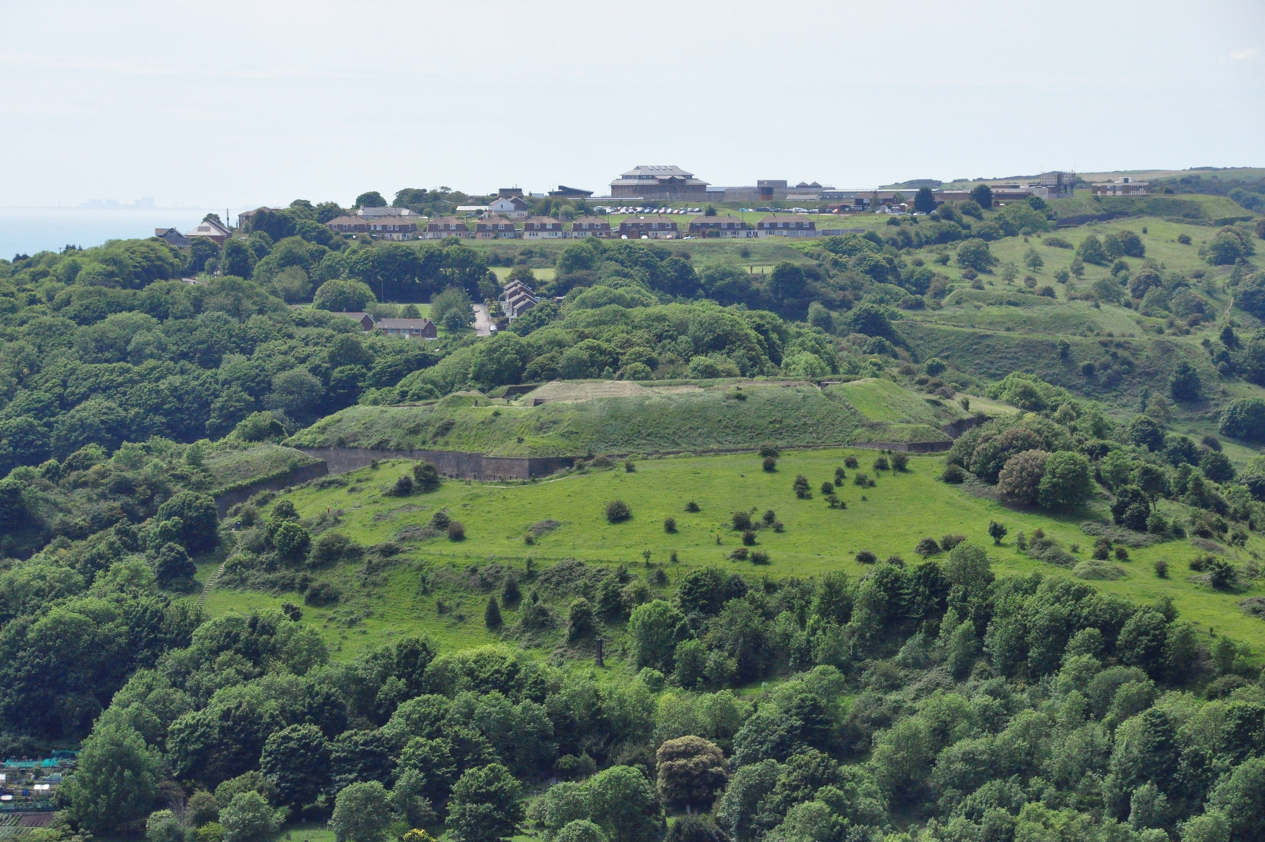 The Western Heights above Dover, Kent, seen from Dover Castle.